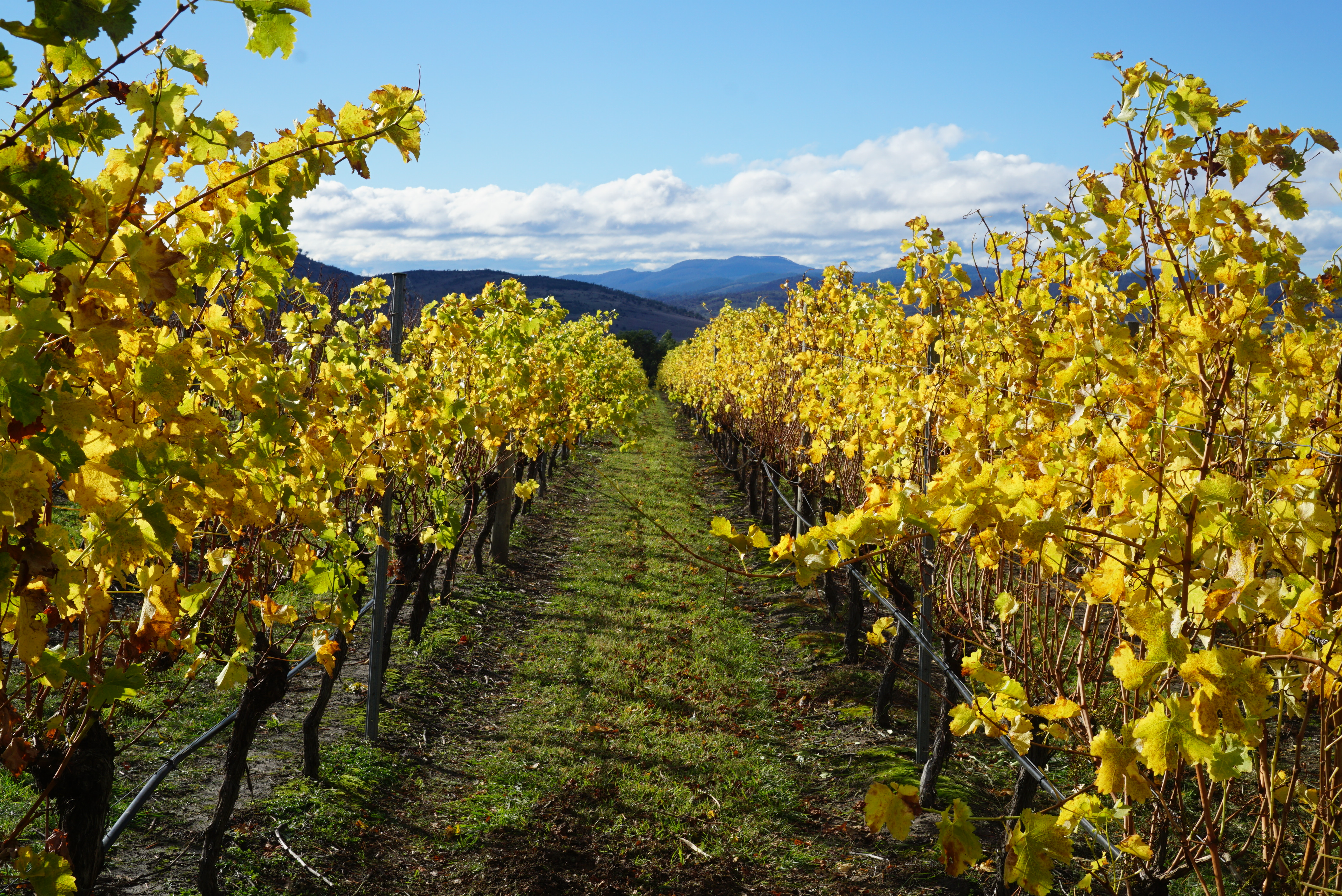 42 Degrees South Winery, Tasmania